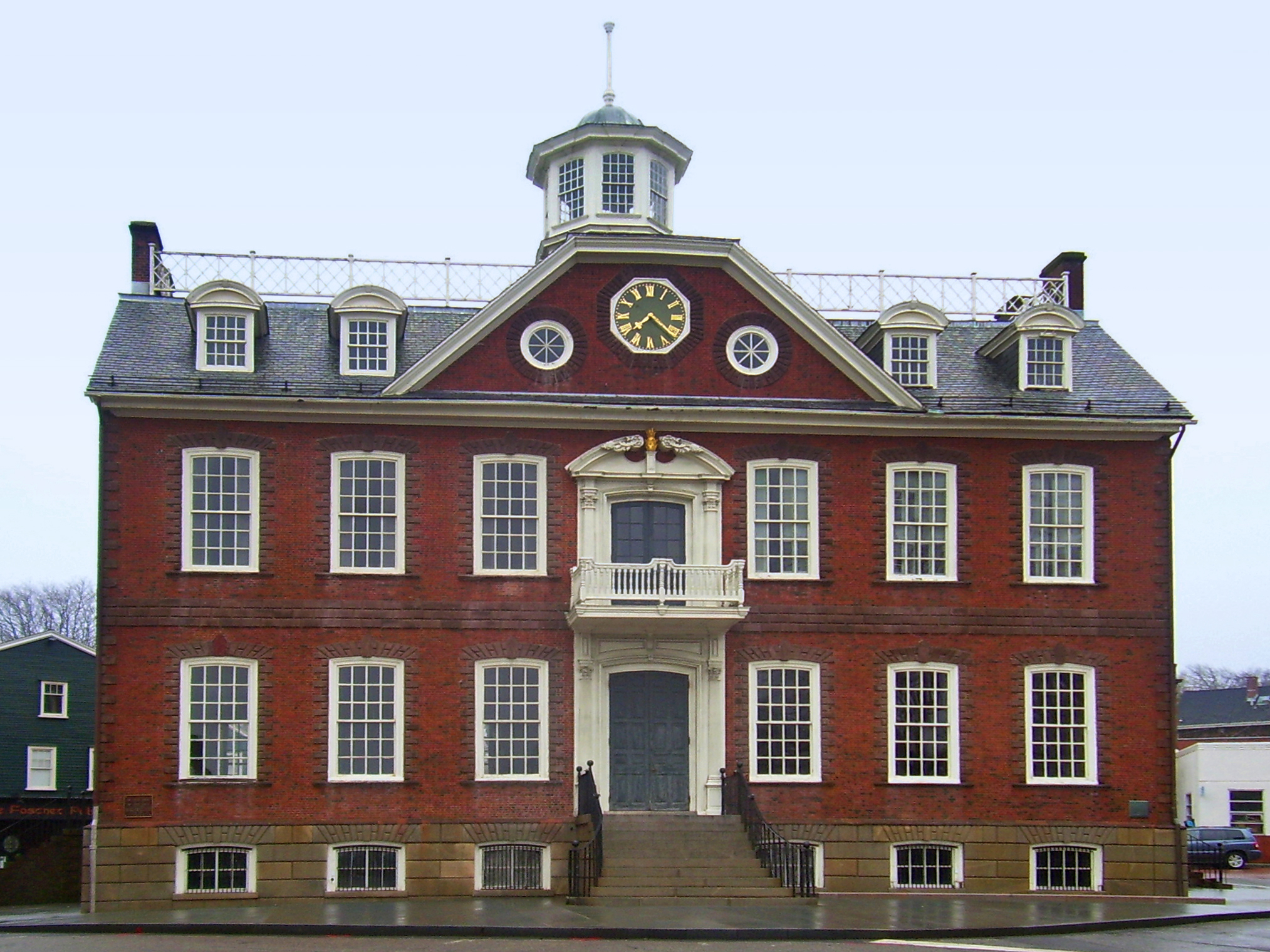 Old State House in Newport, RI, USA, former meeting place of colonial and state legislatures.